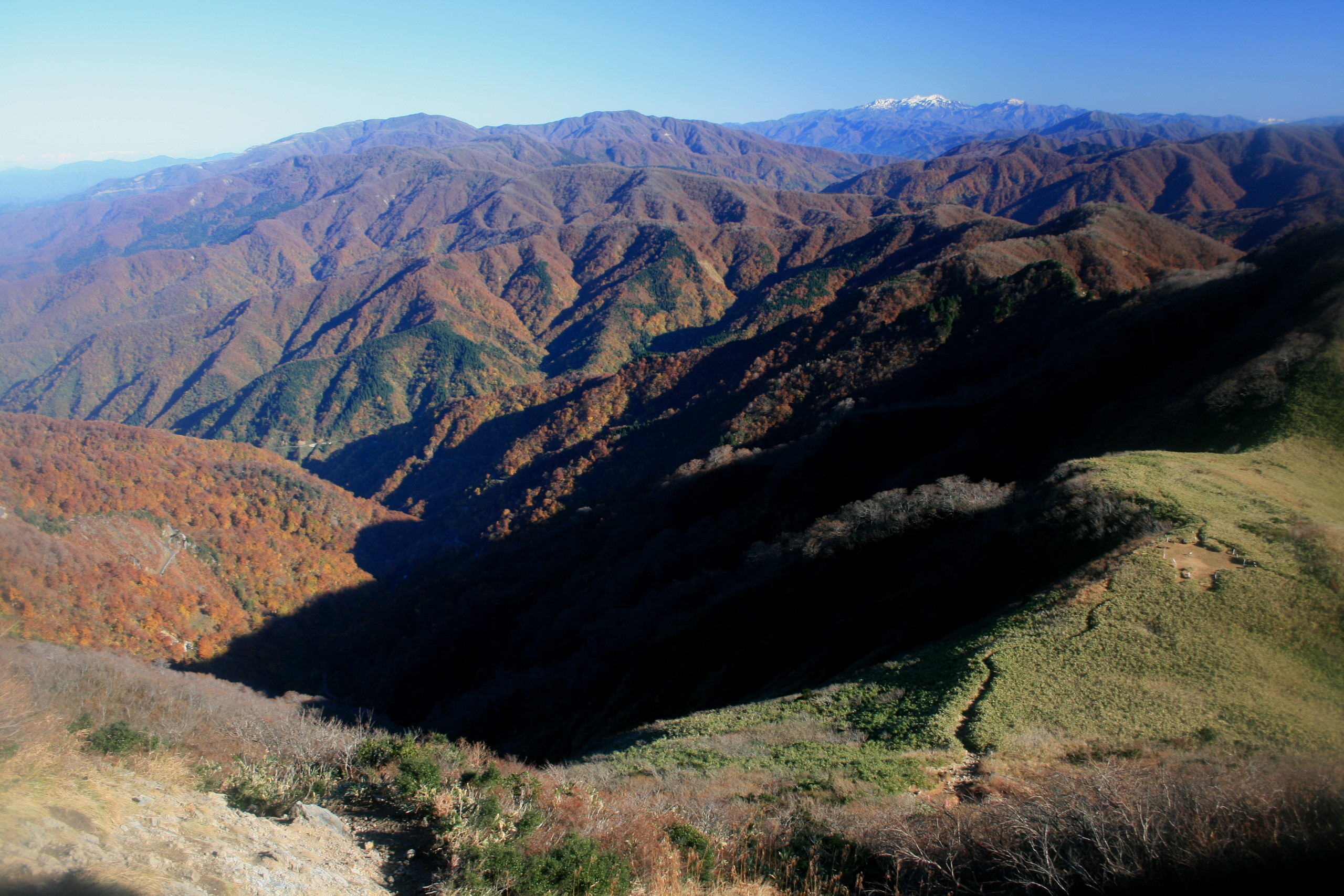 Kanmuridaira and Mount Haku from Mount kanmuri